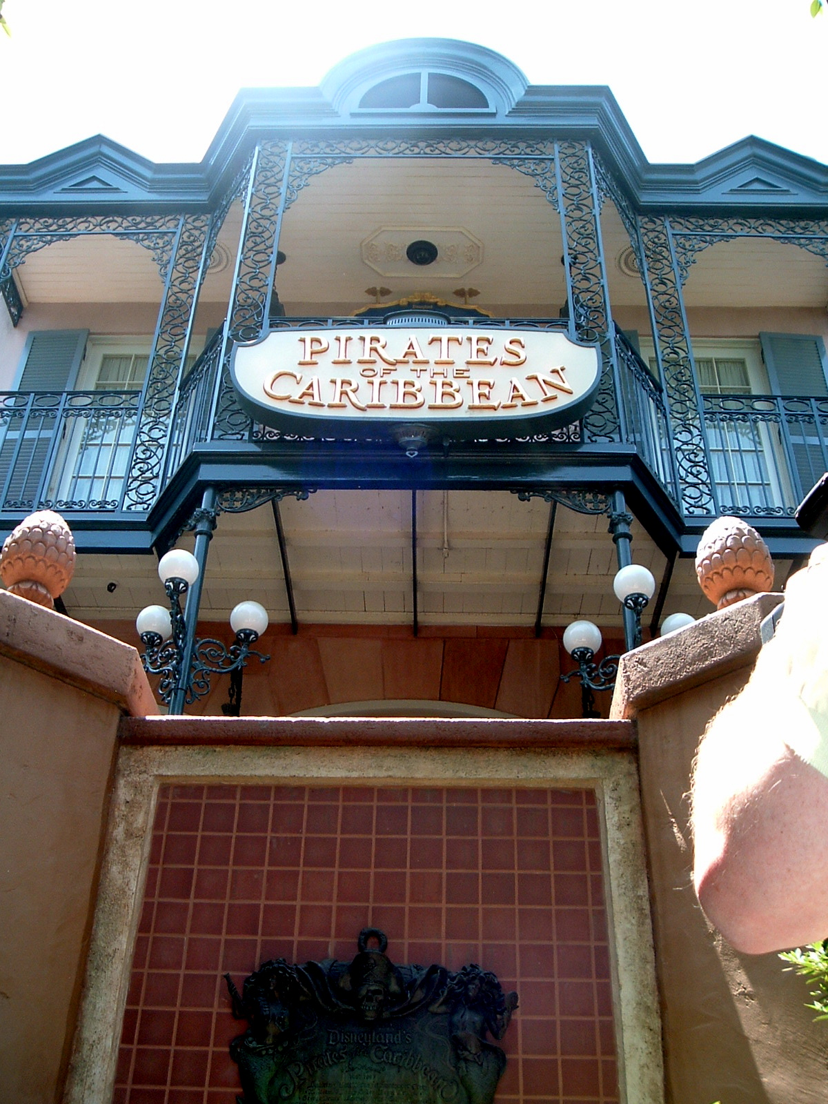 Entrance to Pirates of the Caribbean at Disneyland